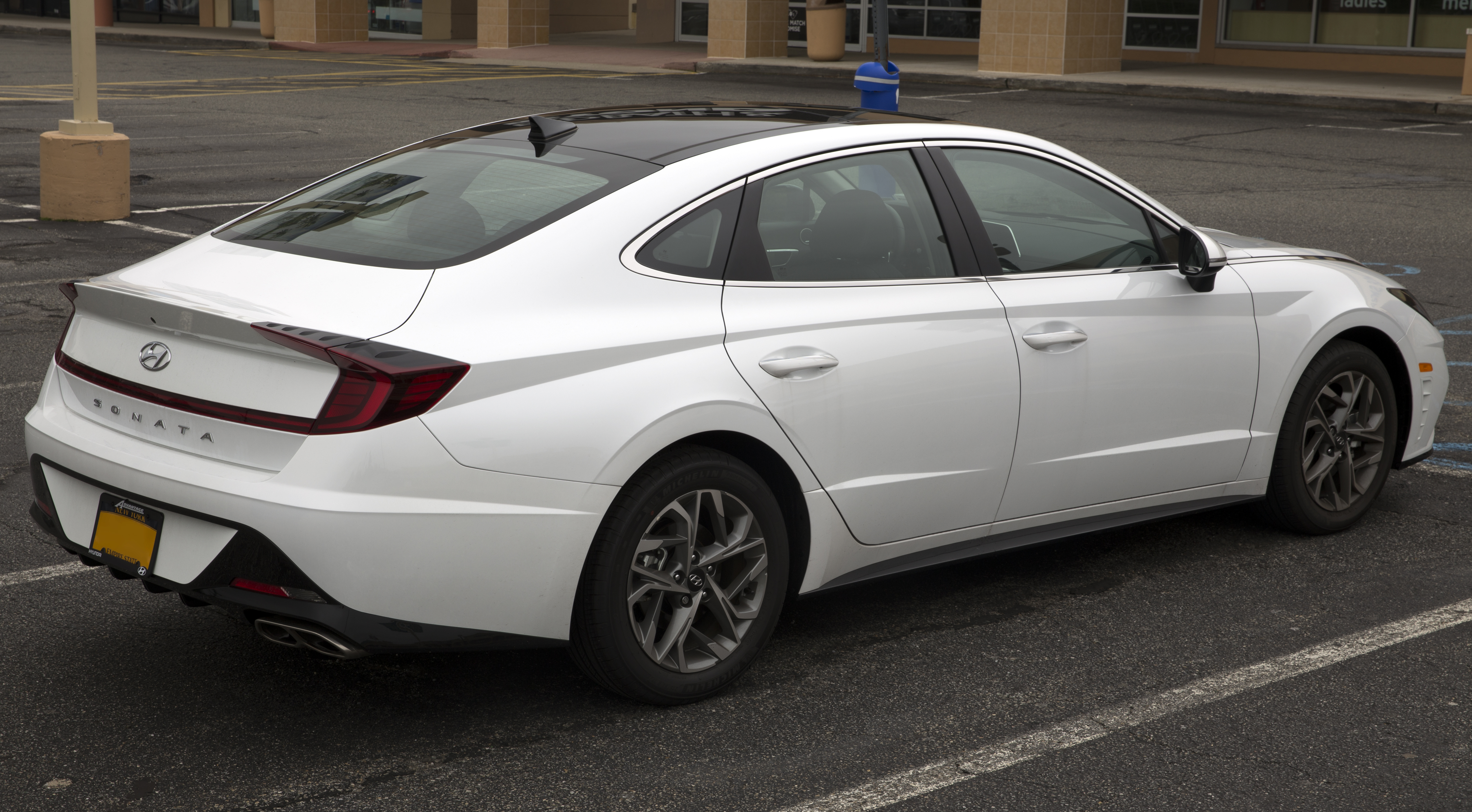 A 2020 Hyundai Sonata SEL in Quartz White. 2.5-liter GDI Theta III engine; built at Hyundai Motor Manufacturing (HMMA) in Montgomery, Alabama.